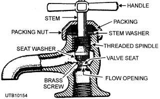 Diagram showing the various parts of a faucet. Taken from the U.S. Navy Training Manual "NAVEDTRA 14265".